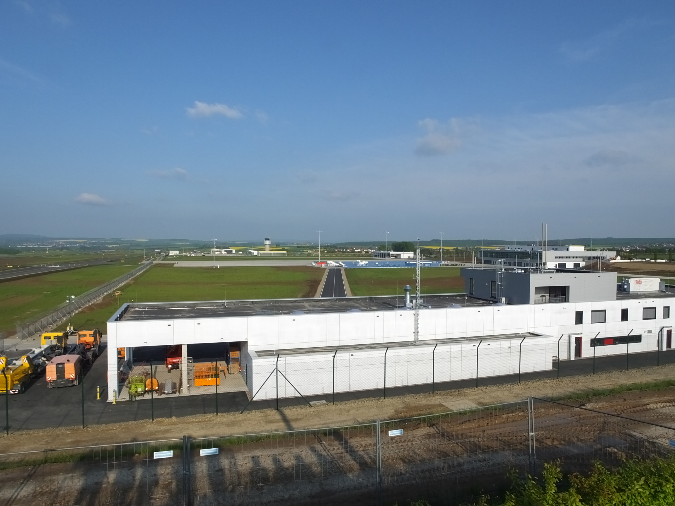 View over the Apron and GAT of the Airport Kassel-Calden